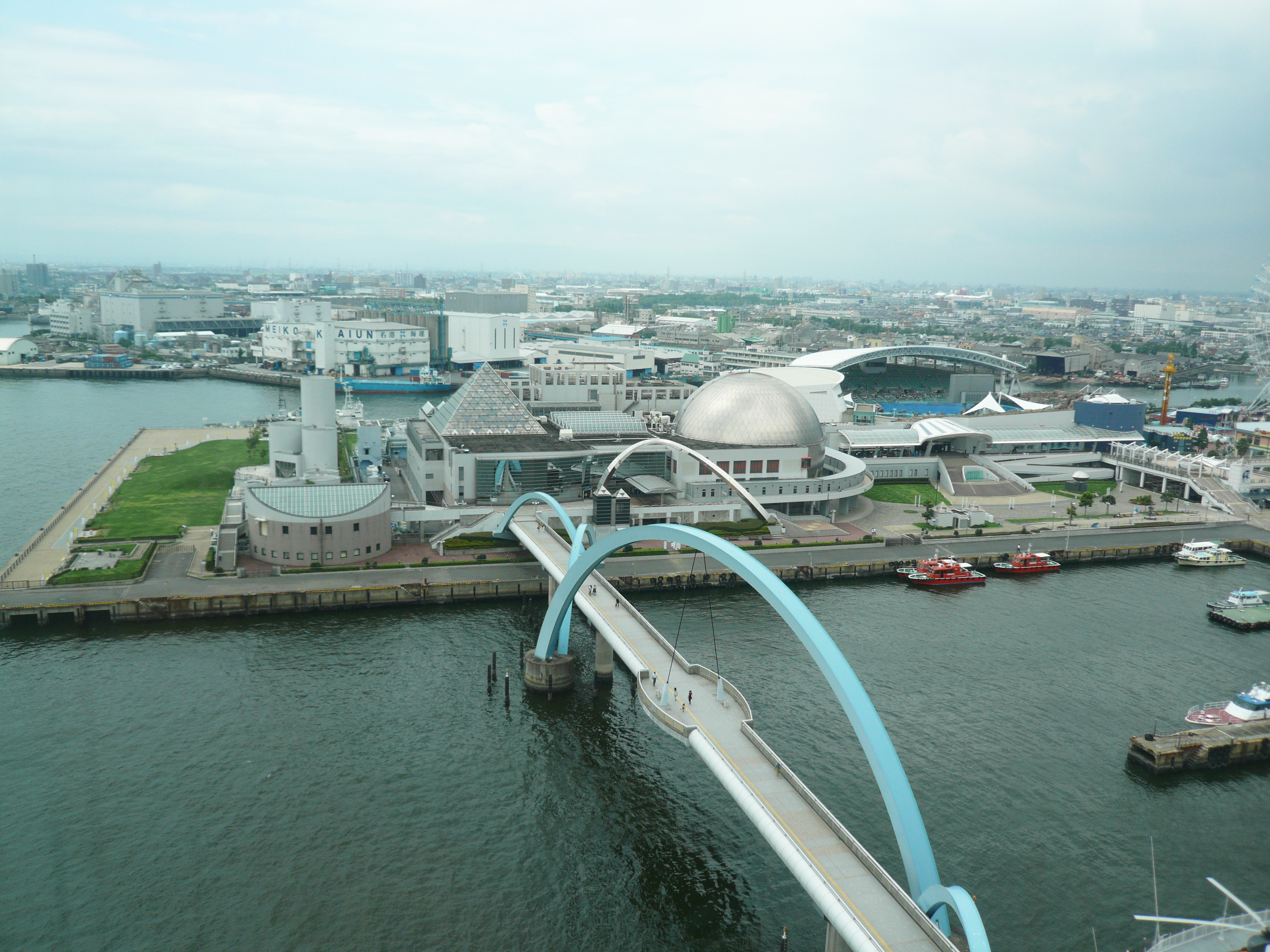 Nagoya Port Aquarium.